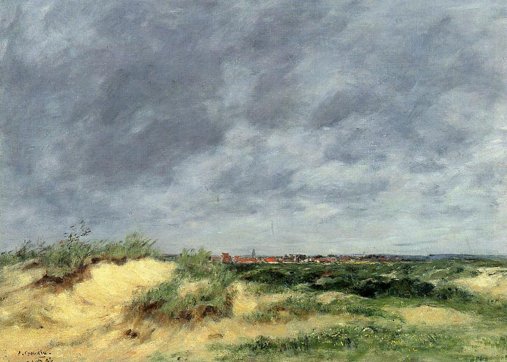 The dunes at Berck under heavy weather